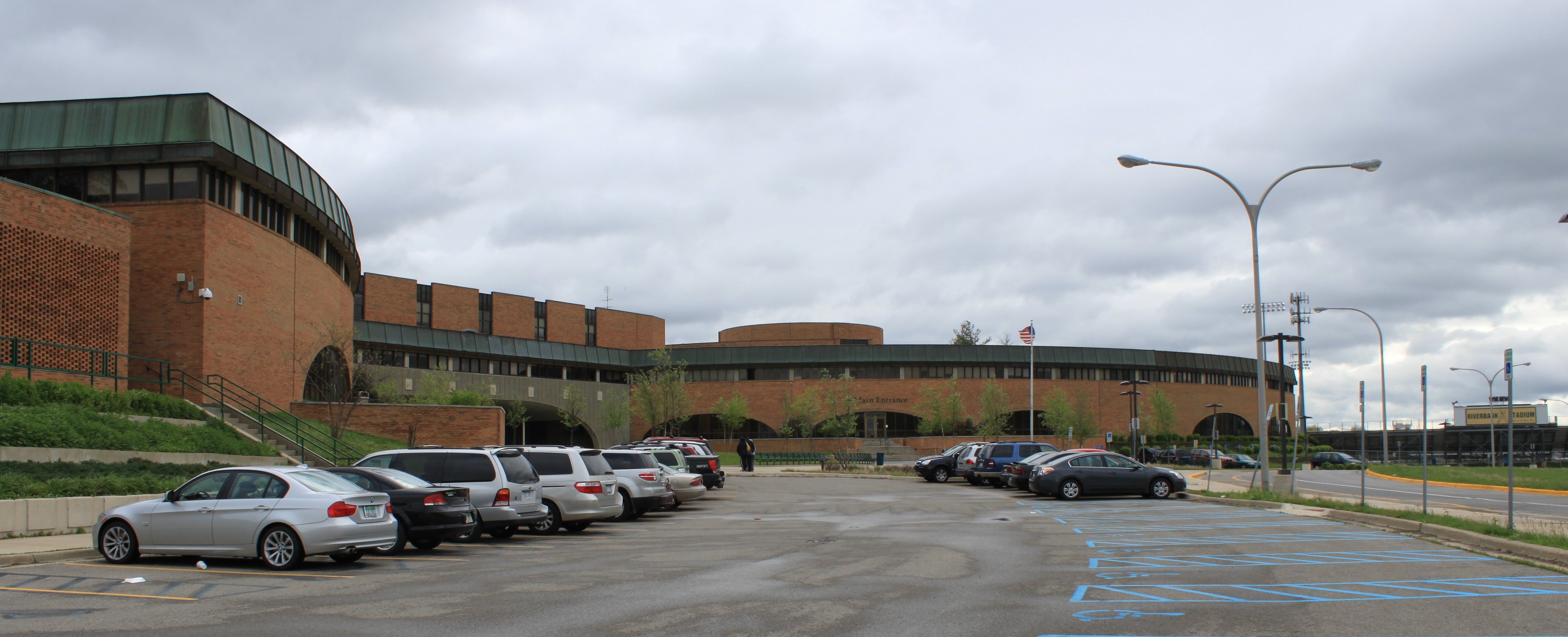 Huron High School, 2727 Fuller Rd, Ann Arbor, Michigan 48105